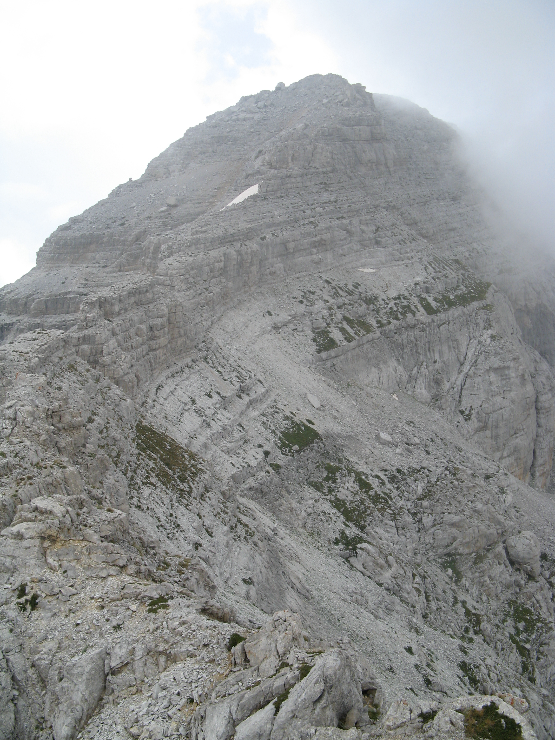 Jezercës peak